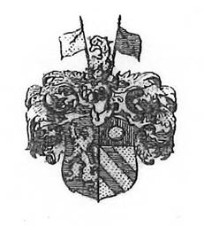 The Leijoncreutz coat of arms.